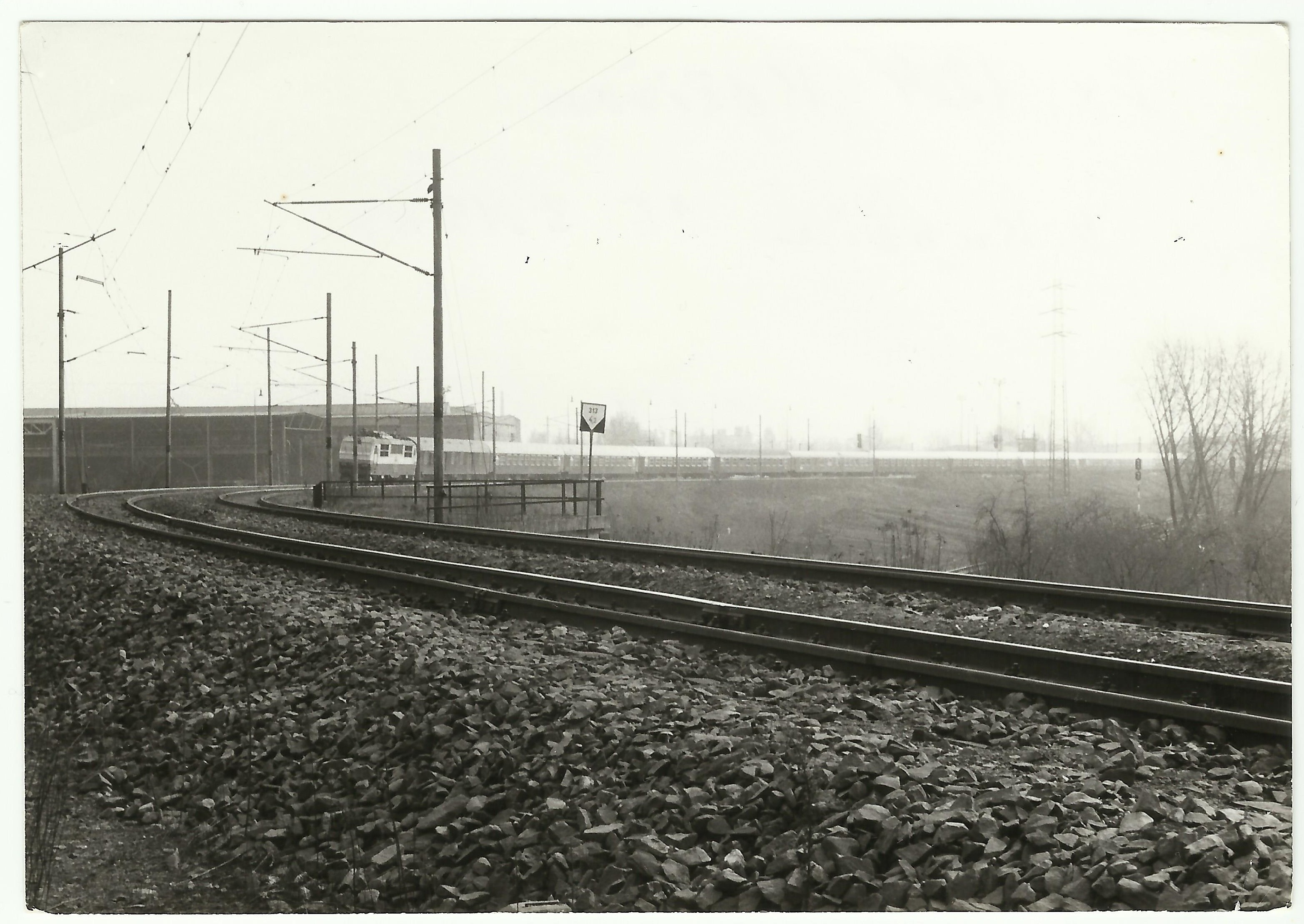 Kunčice, Ex 124 Košičan 25.3. 1984 (Czechoslovakia).